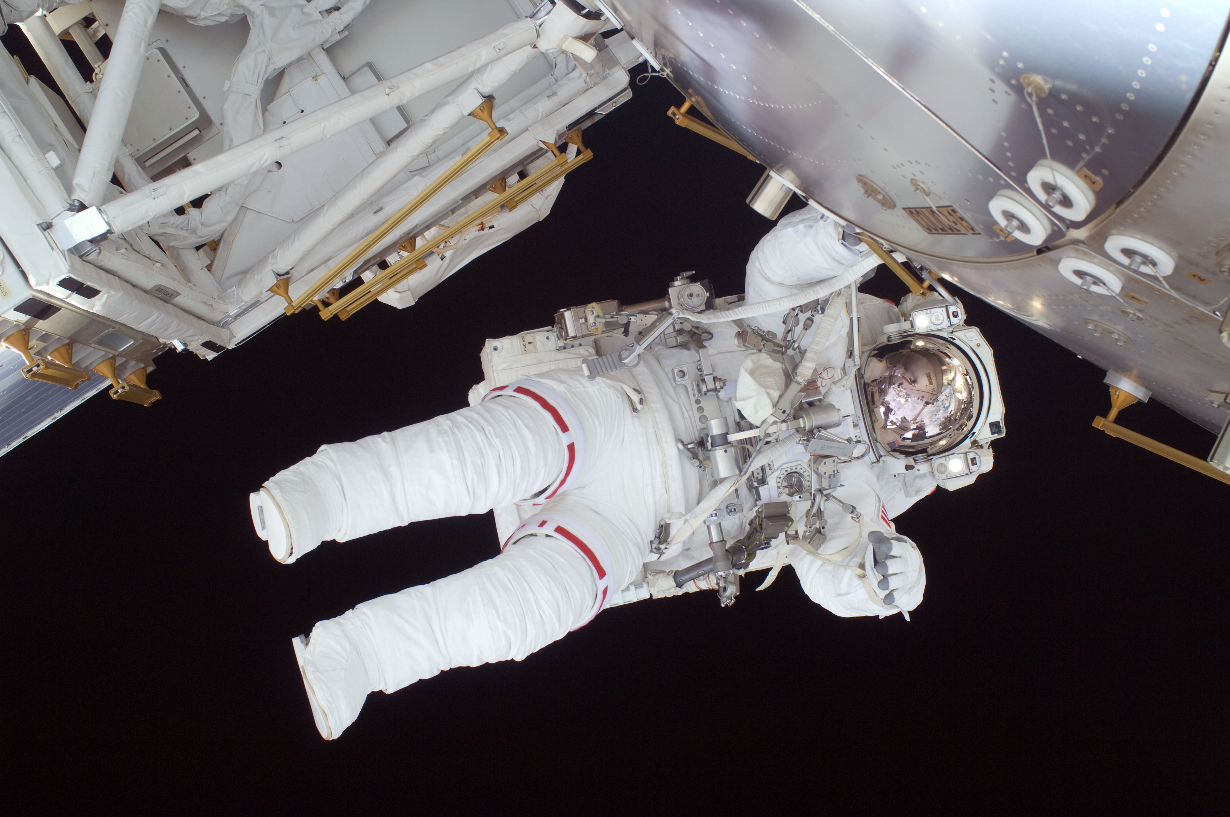 Expedition 20 flight engineer Nicole Stott participates in the STS-128 mission's first space-walk as construction and maintenance continue on the International Space Station. During the six-hour, 35-minute space-walk, Stott and astronaut Danny Olivas (out of frame) removed an empty ammonia tank from the station's truss and temporarily stowed it on the station's robotic arm. Olivas and Stott also retrieved the European Technology Exposure Facility and Materials International Space Station Experiment from the Columbus laboratory module and installed them on Discovery's payload bay for return.